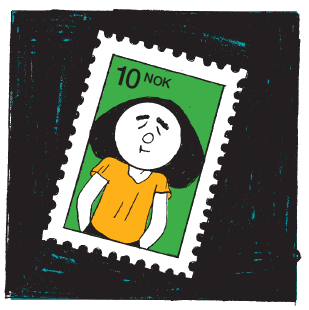 Stamp collecting as a hobby